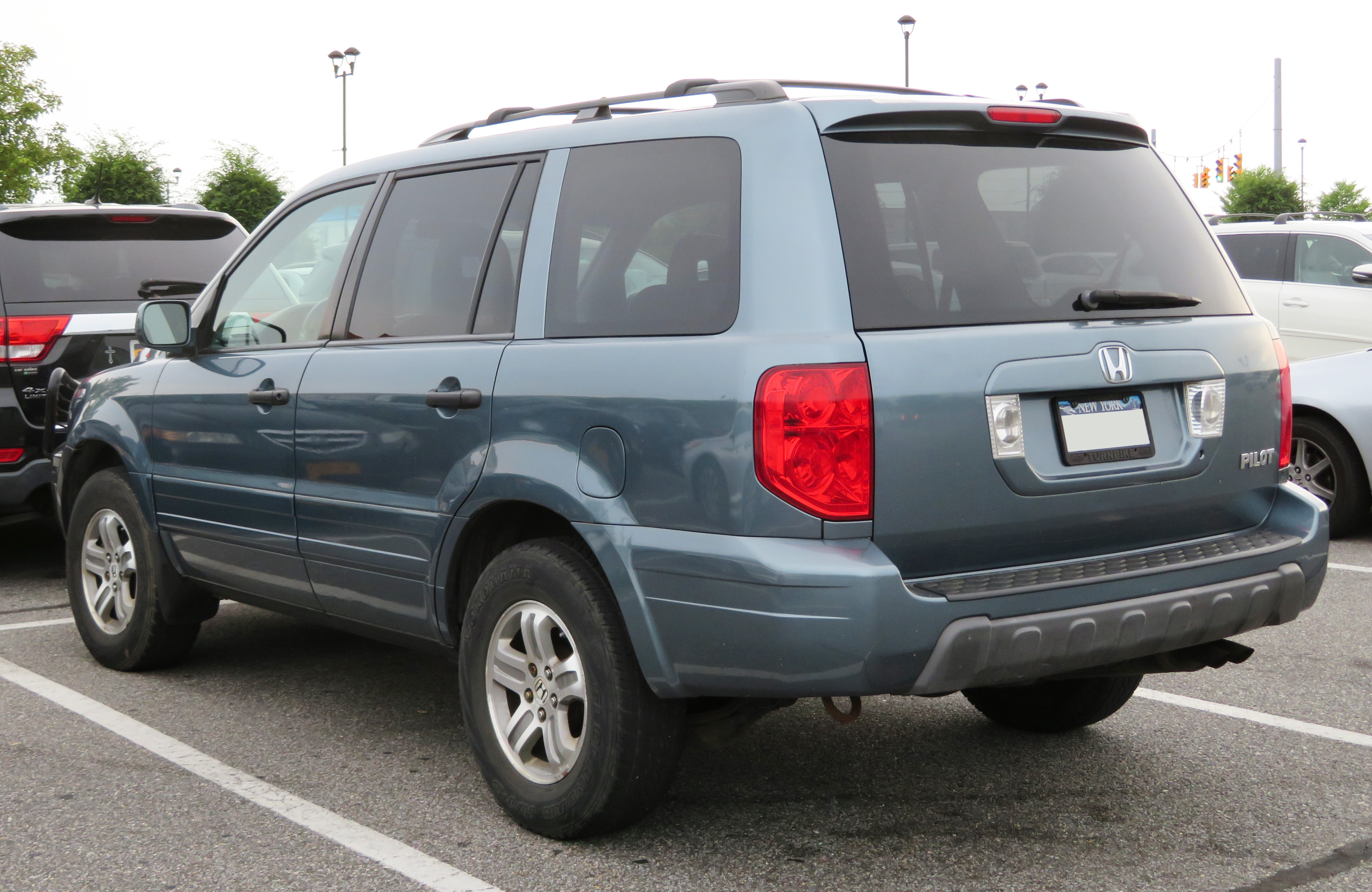 A 2005 Honda Pilot EX-L photographed in Long Island, New York, USA